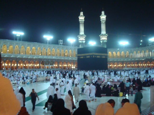 Kaaba, Makkah, Saudi Arabia